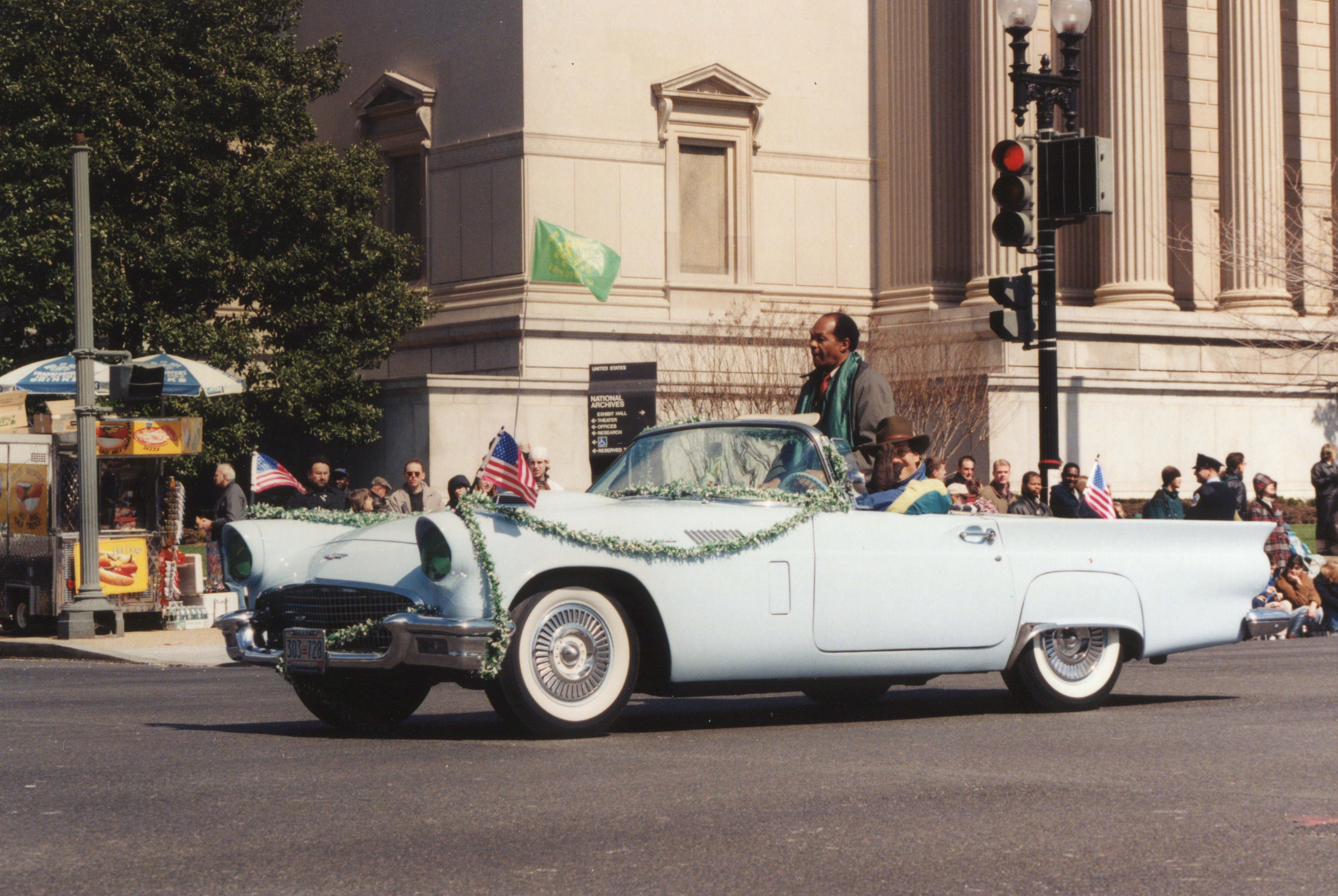 27th St. Patrick's Day Parade on Constitution Avenue at 7th Street, NW, Washington DC on Sunday morning, 15 March 1998 by Elvert Barnes Photography Mayor Marion Barry Visit Washington DC St. Patrick's Day Parade website at Elvert Barnes WASHINGTON DC ST. PATRICK'S DAY PARADE ongoing project at